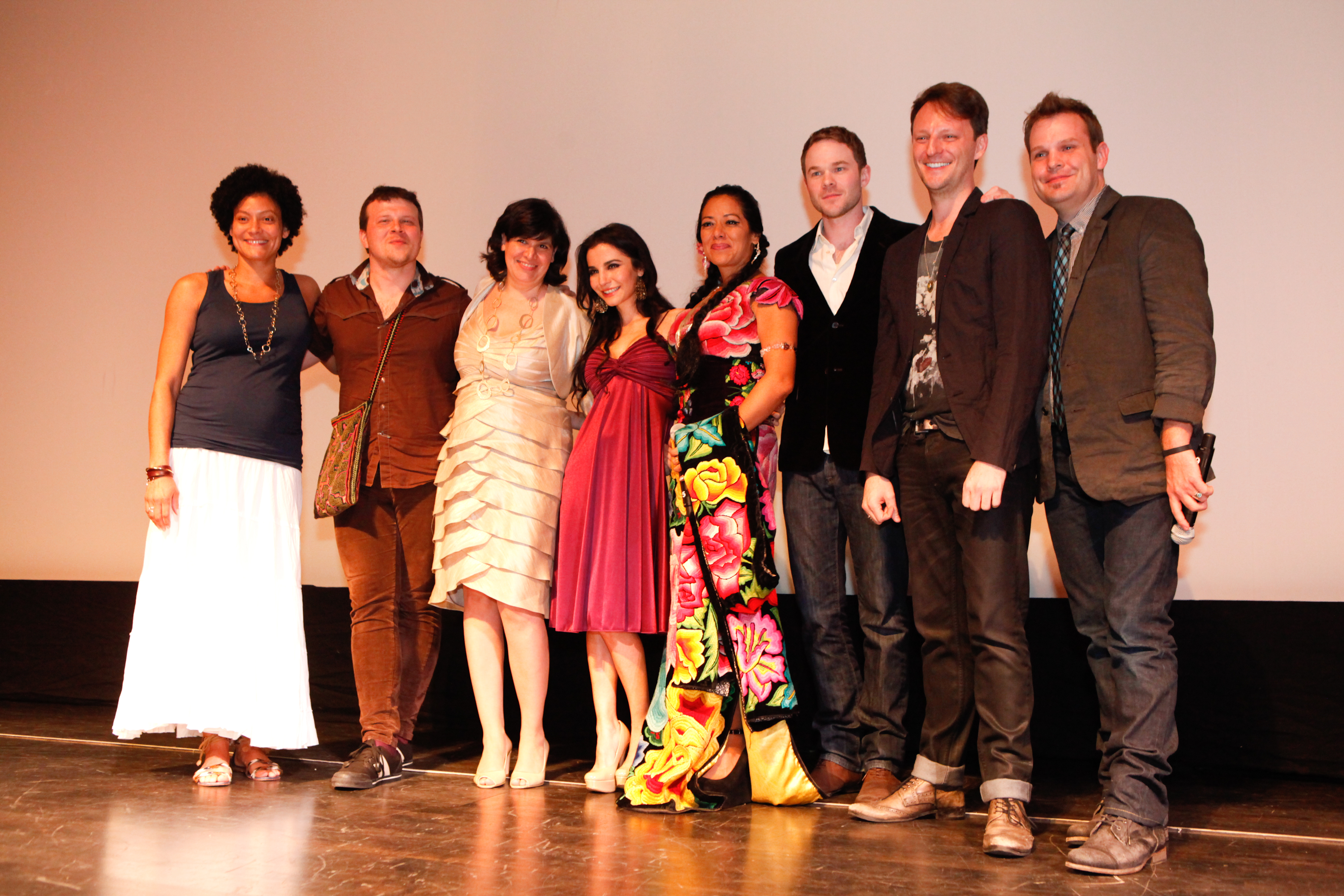 The cast & crew of Mariachi Gringo at the 2012 Miami International Film Festival Opening Night: World Premiere of "Mariachi Gringo" at the Olympia Theater at the Gusman Center for the Performing Arts.